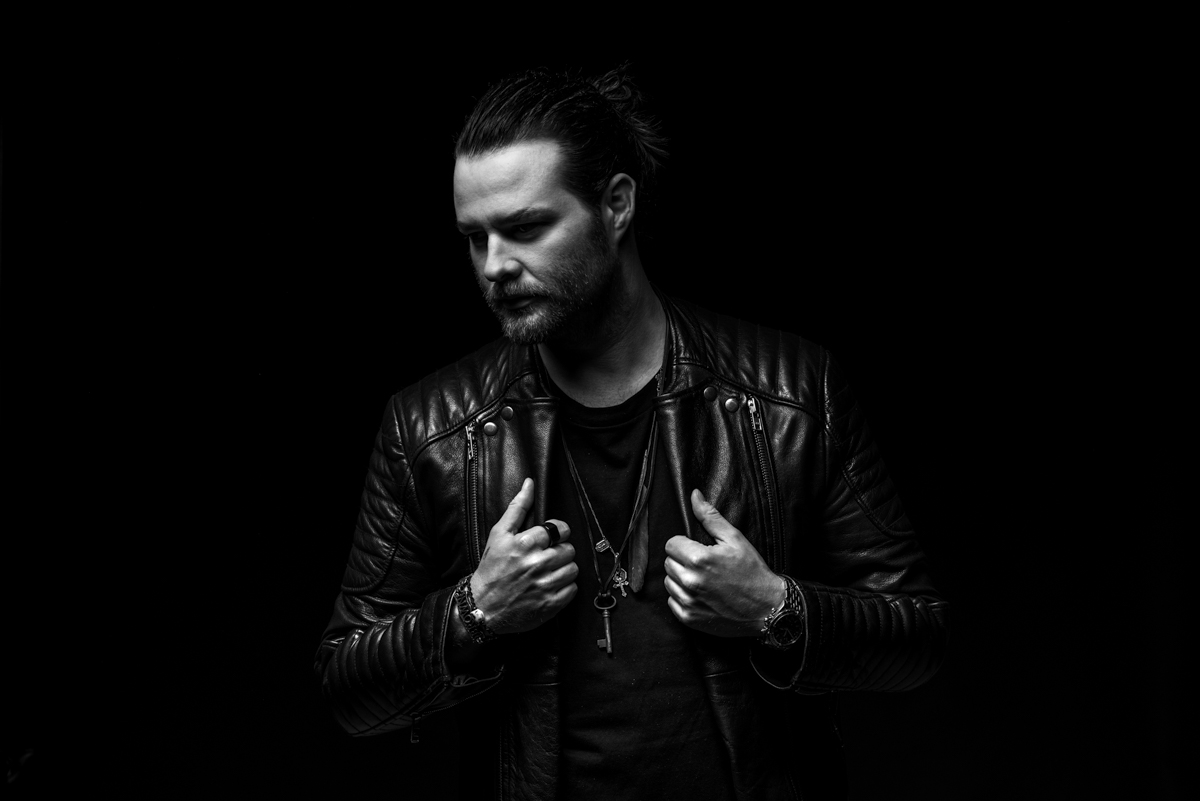 Dj & Producer Alexander Brown